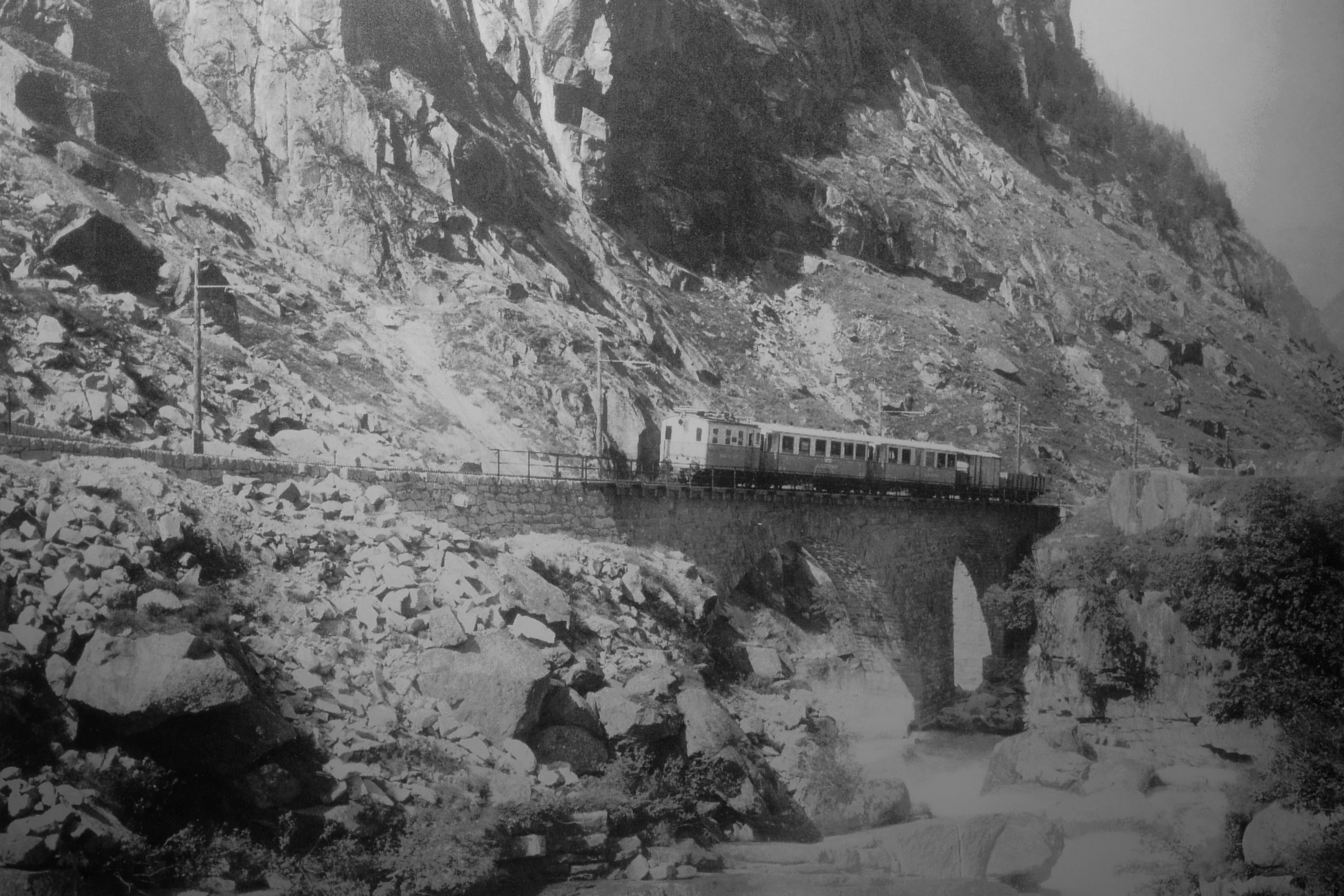 A train on the second bridge over the Reuss at Schöllenenmätteli after the departure from the station Göschenen. The date of this photo is not known, but it will probably originate from the early years. The Railway was built from May 23, 1913 to July 11, 1917. The height difference between Göschenen and Andermatt is 329.6 meters. The maximum slope on the rack section is 179 ‰. Because of the First World War, on July 11, 1917, only a modest inauguration ceremony took place. It seems to be the fate of this railway that it carves out a wallflower existence. This line is operated today by the Matterhorn Gotthard Bahn.